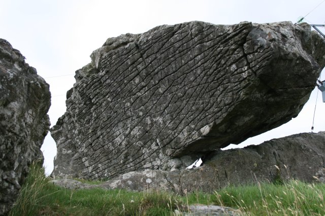 A large boulder of Lewisian Gneiss perched next to the road leading to the jetty at Culkein, Drumbeg.